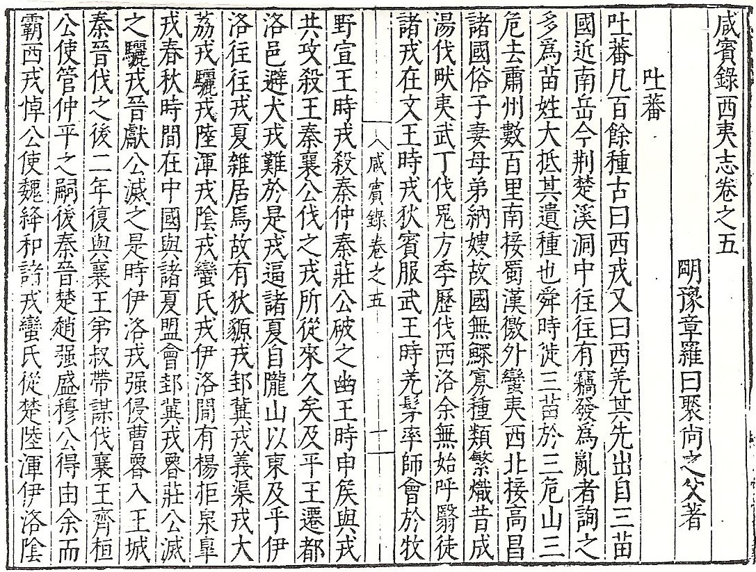 Xian Bin Lu (咸賓錄)